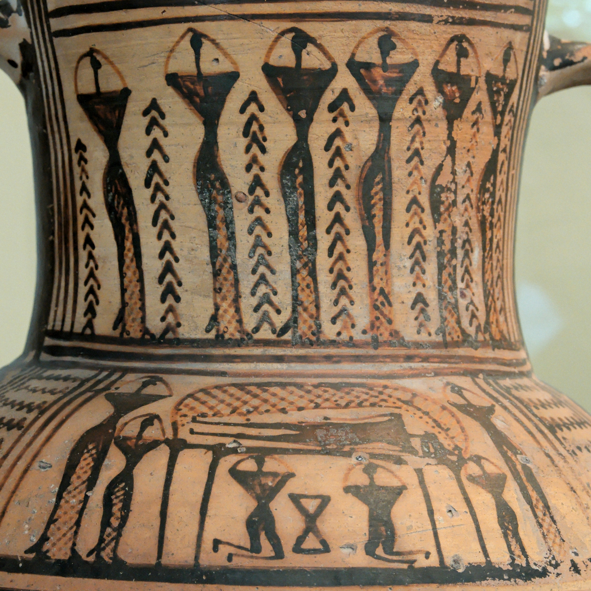 Shoulder: prothesis scene (showing of the dead person); neck: funerary lamentation. Attic neck-amphora, Late Geometric IIa, 730–720 BC.